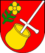 Coat of arms of Stupava, Slovakia